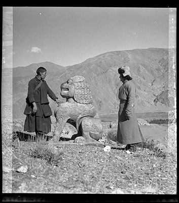 Stone lion on burial mound of King Ralpachan in Chyongye valley